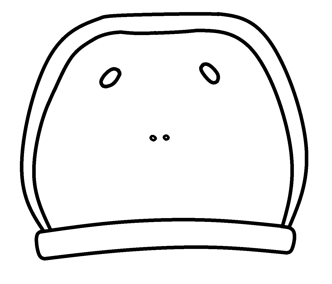 Restoration of the carapace and first body segment of the enigmatic species Unionopterus anastasiae, based in Chernyshev, 1948.